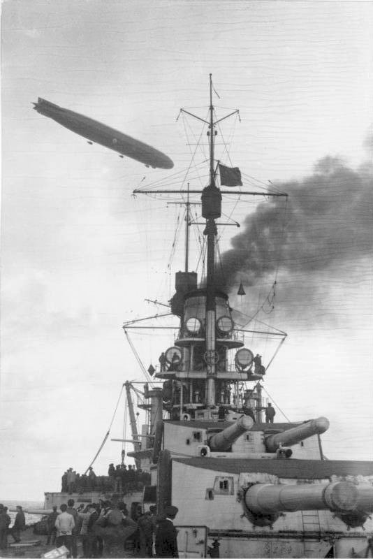 This image is of the German battleship SMS Großer Kurfürst, taken during Operation Albion in October 1917 (ref: Staff, Gary (2008) Battle for the Baltic Islands 1917, Pen & Sword Maritime, Barnsley, South Yorkshire ISBN: 978-1-84415-7877) The airship is S.L. 8.